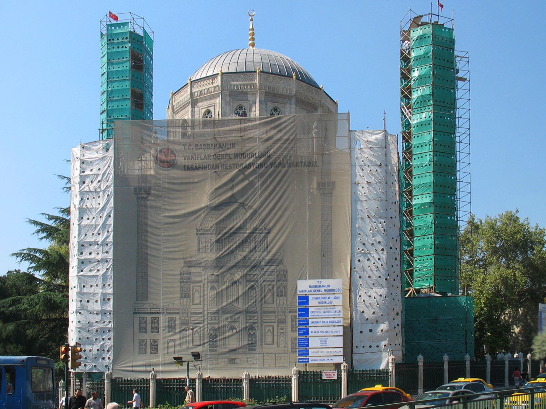 Pertevniyal Mosque under restoration, Aksaray, Istanbul, Turkey, 2009